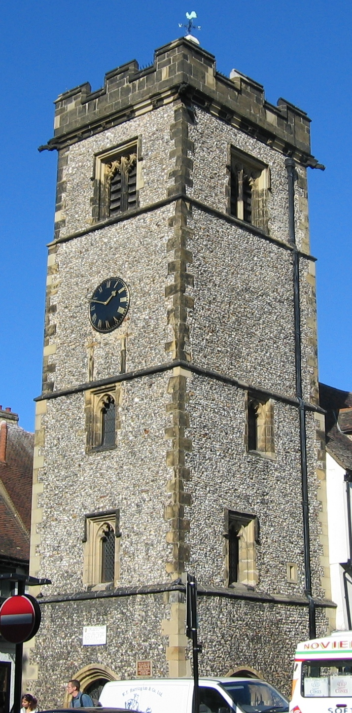 The St Albans clock tower.